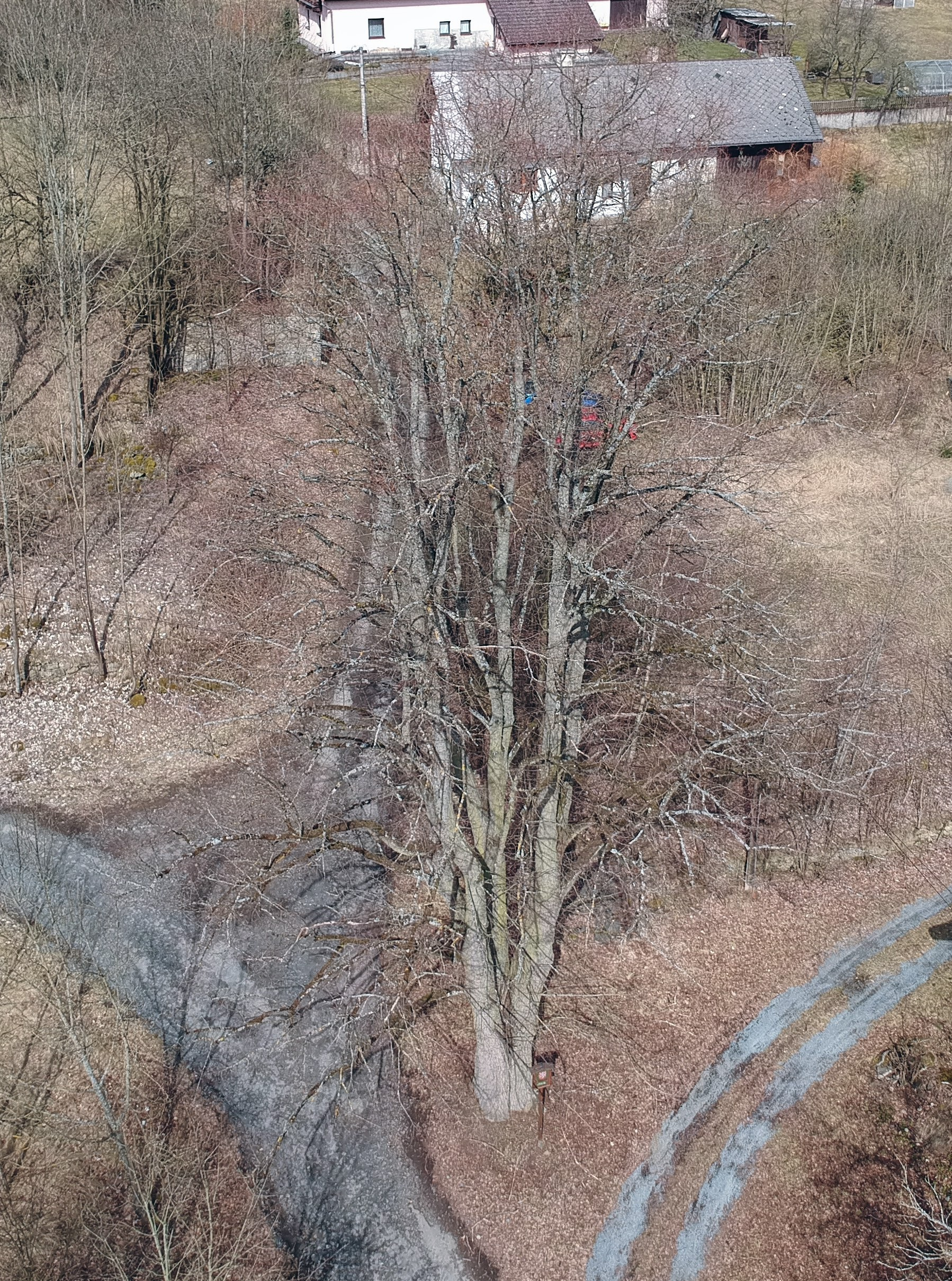 memorable tree in Domažlice district